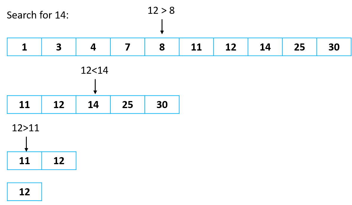 An example of a binary search